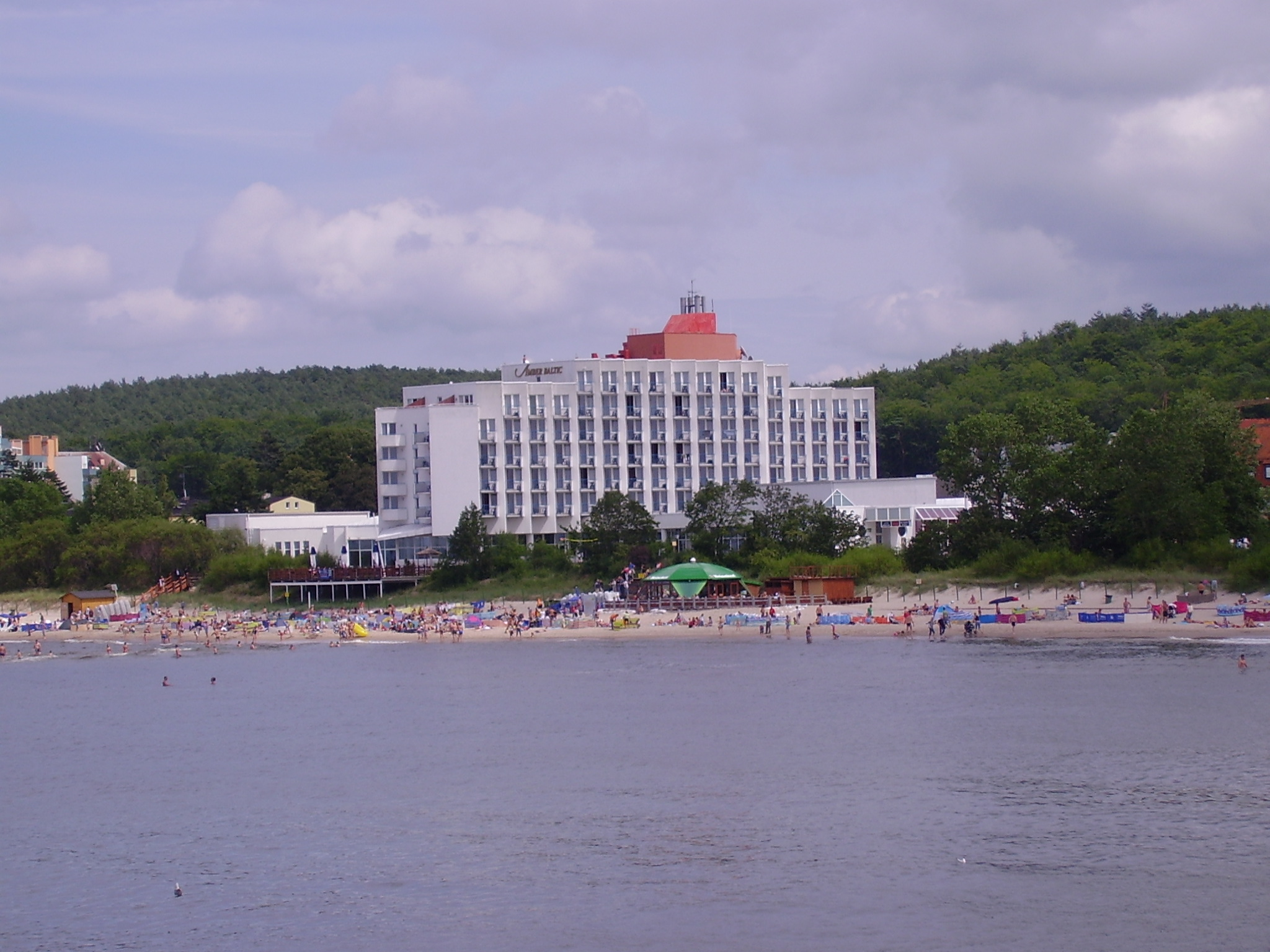 Hotel Amber Baltic in Międzyzdroje (Poland)